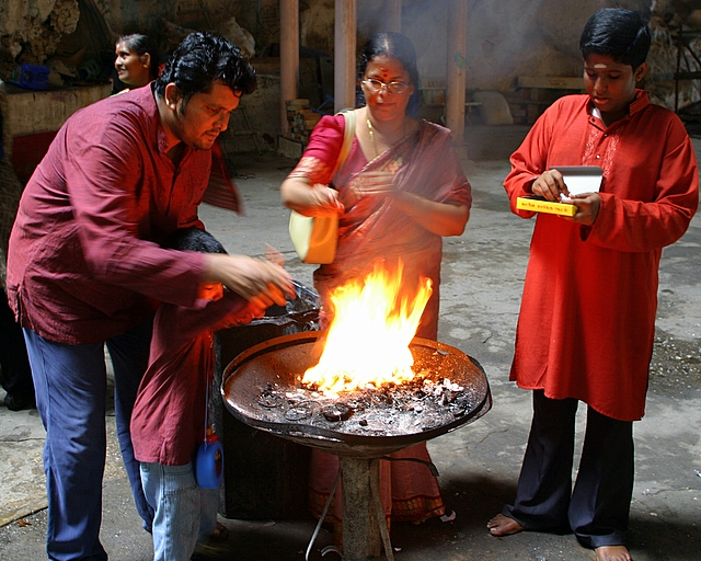 Hindu in Kuala Lumpur on the holy fire